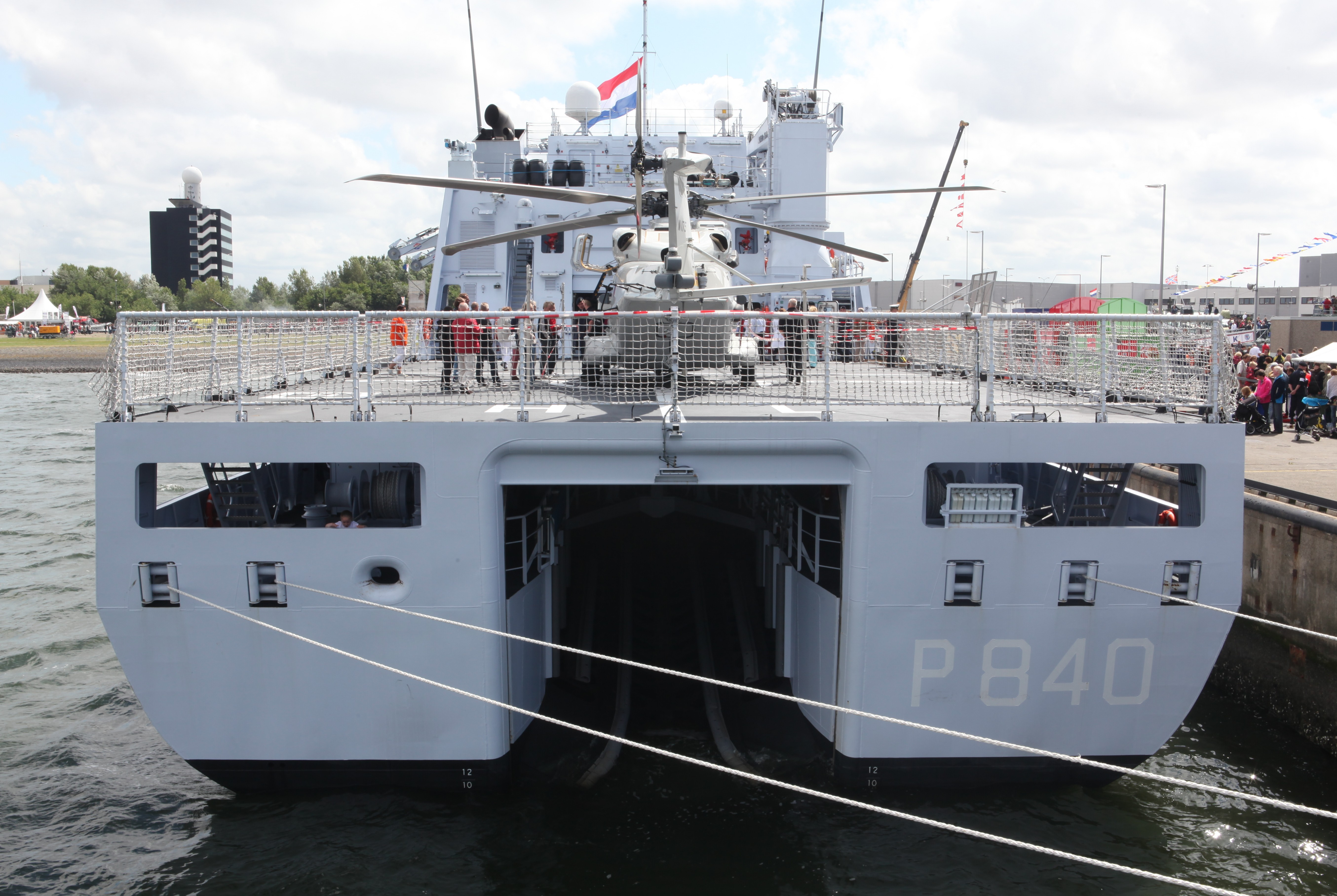 Holland class P 840 Holland Oceangoing Patrol Vessel (OPV)